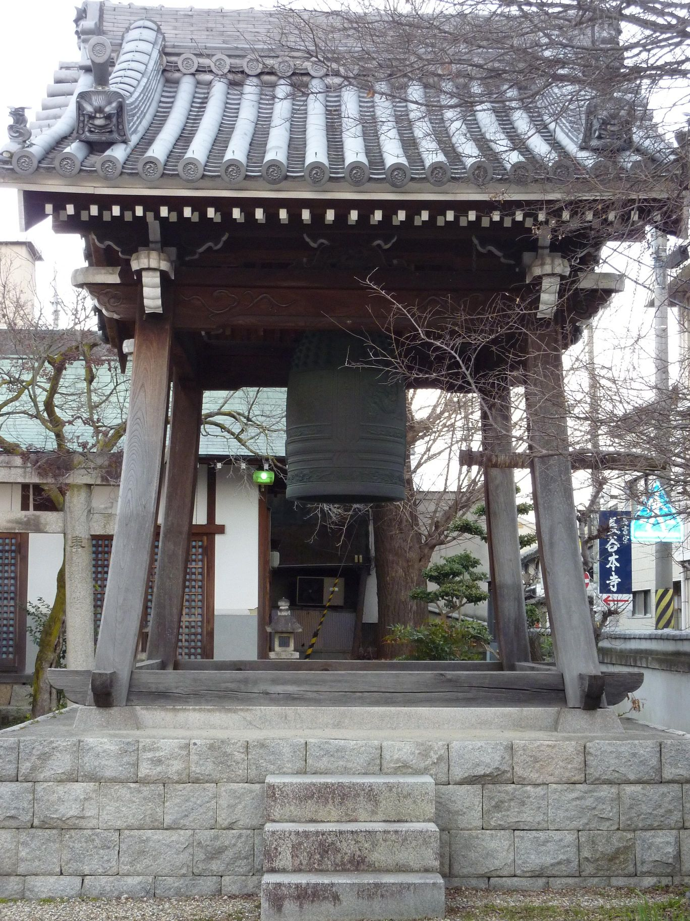 The bell tower of the Hase-hon-ji Temple. After war delivery, I revive on December 18, 1978.